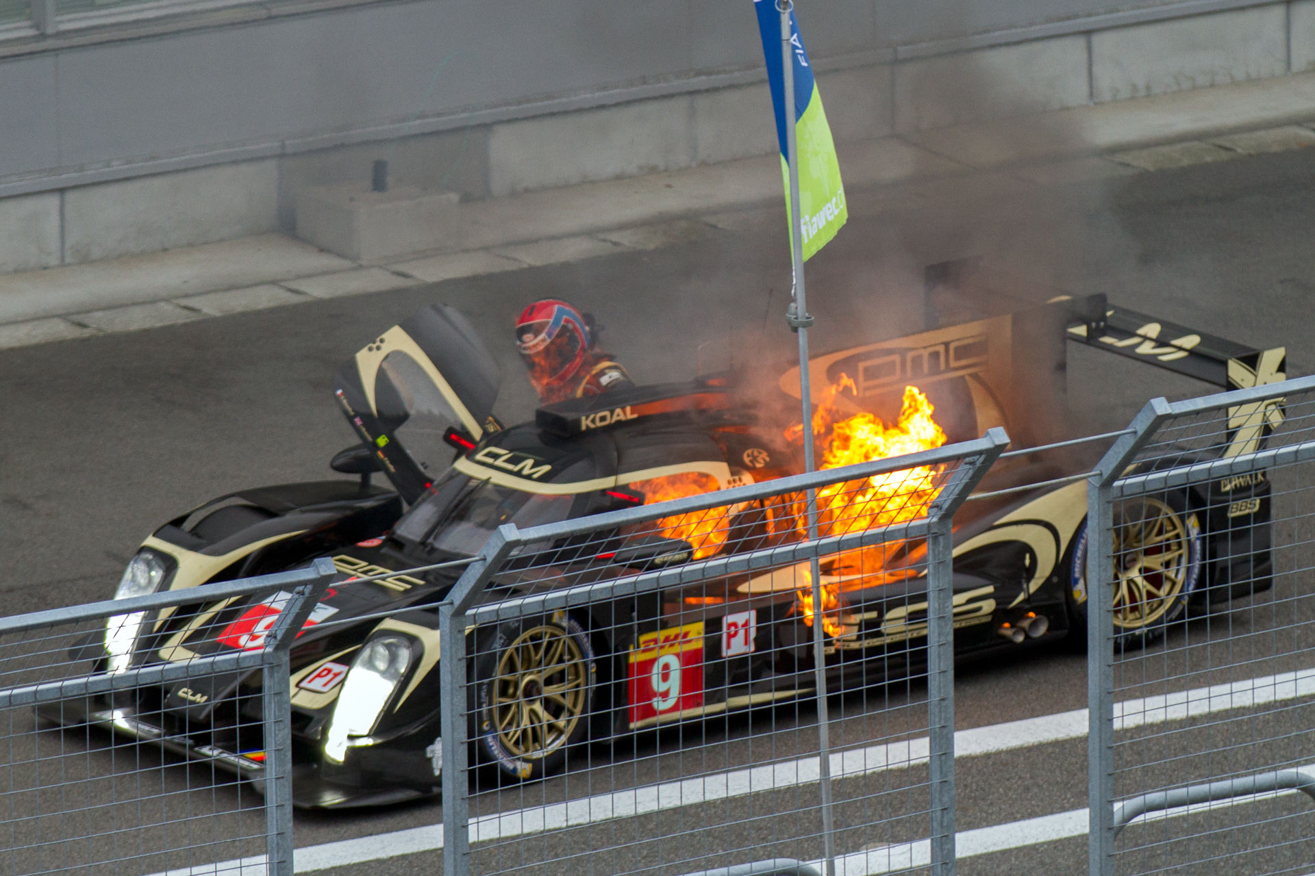 FIA World Endurance Championship 2014 Rd.5 6 Hours of Fuji: Christophe Bouchut (Lotus) escaping from the burning Lotus car.